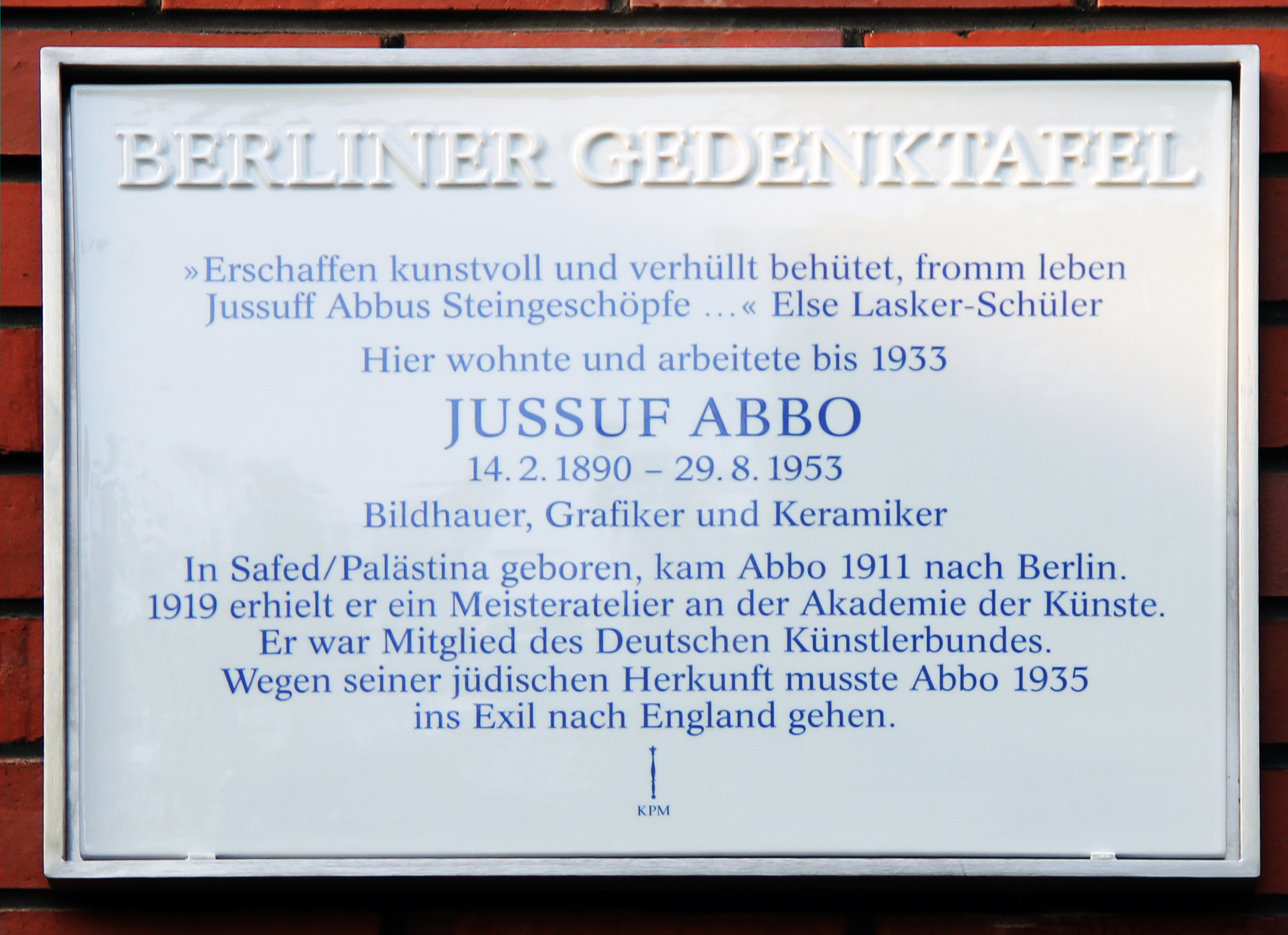 Berlin memorial plaque, Jussuf Abbo, Reichpietschufer 92, Berlin-Tiergarten, Germany